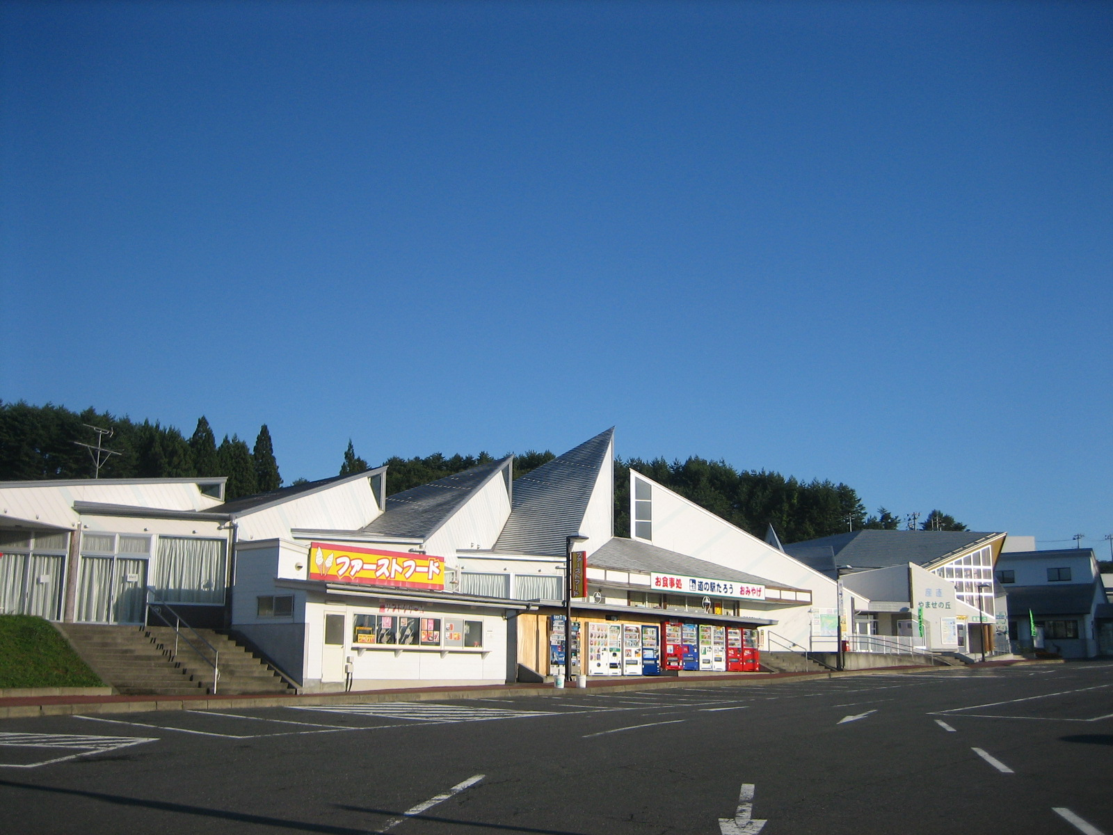 Michinoeki Taro in Iwate, Japan